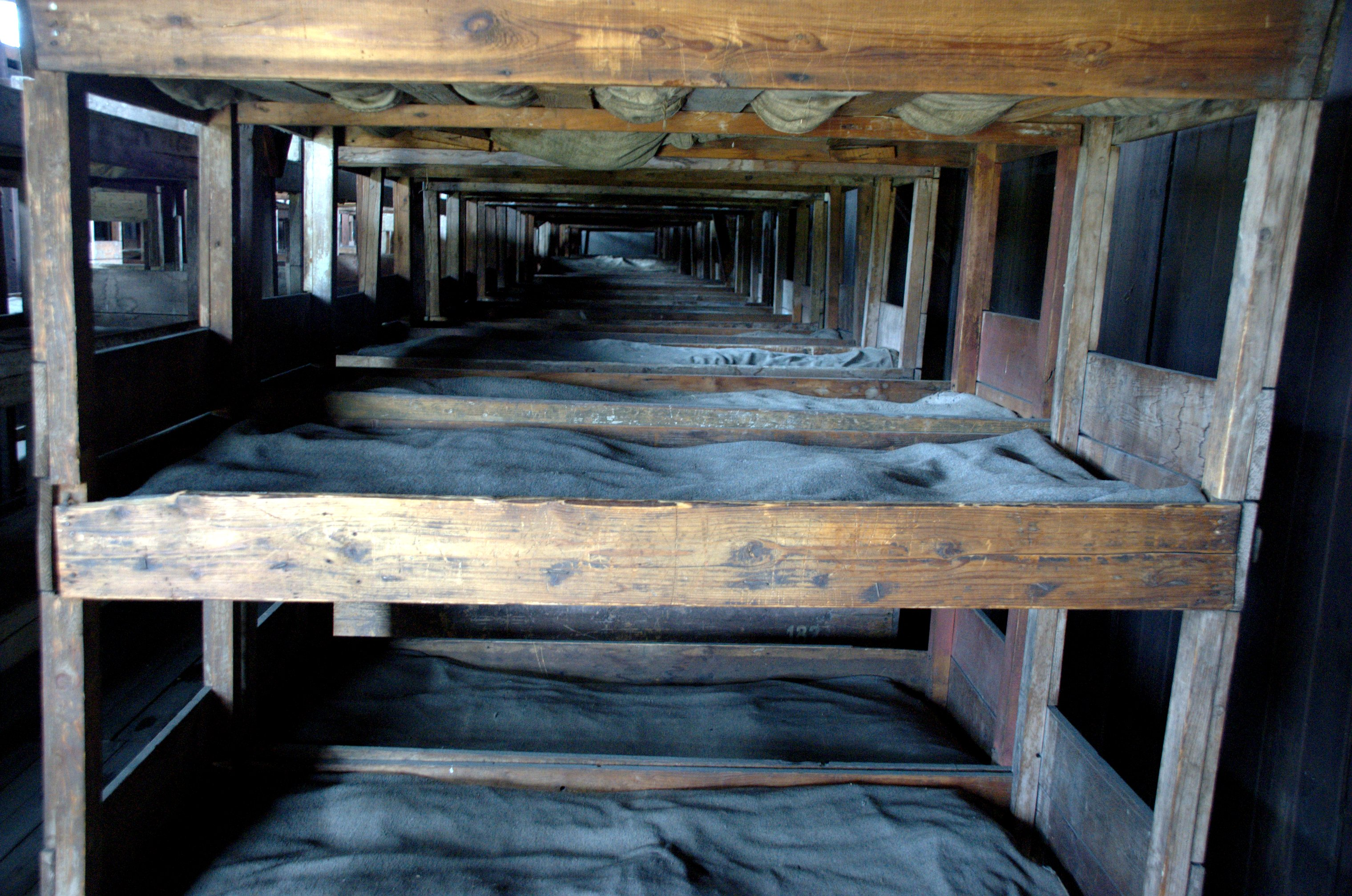 In this conditions the prisioners had to live. With the 3 story beds, up to 500 prisioners were fit into one barrack